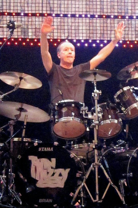 Brian Downey of Thin Lizzy at Aberdeen Music Hall January 6th 2011